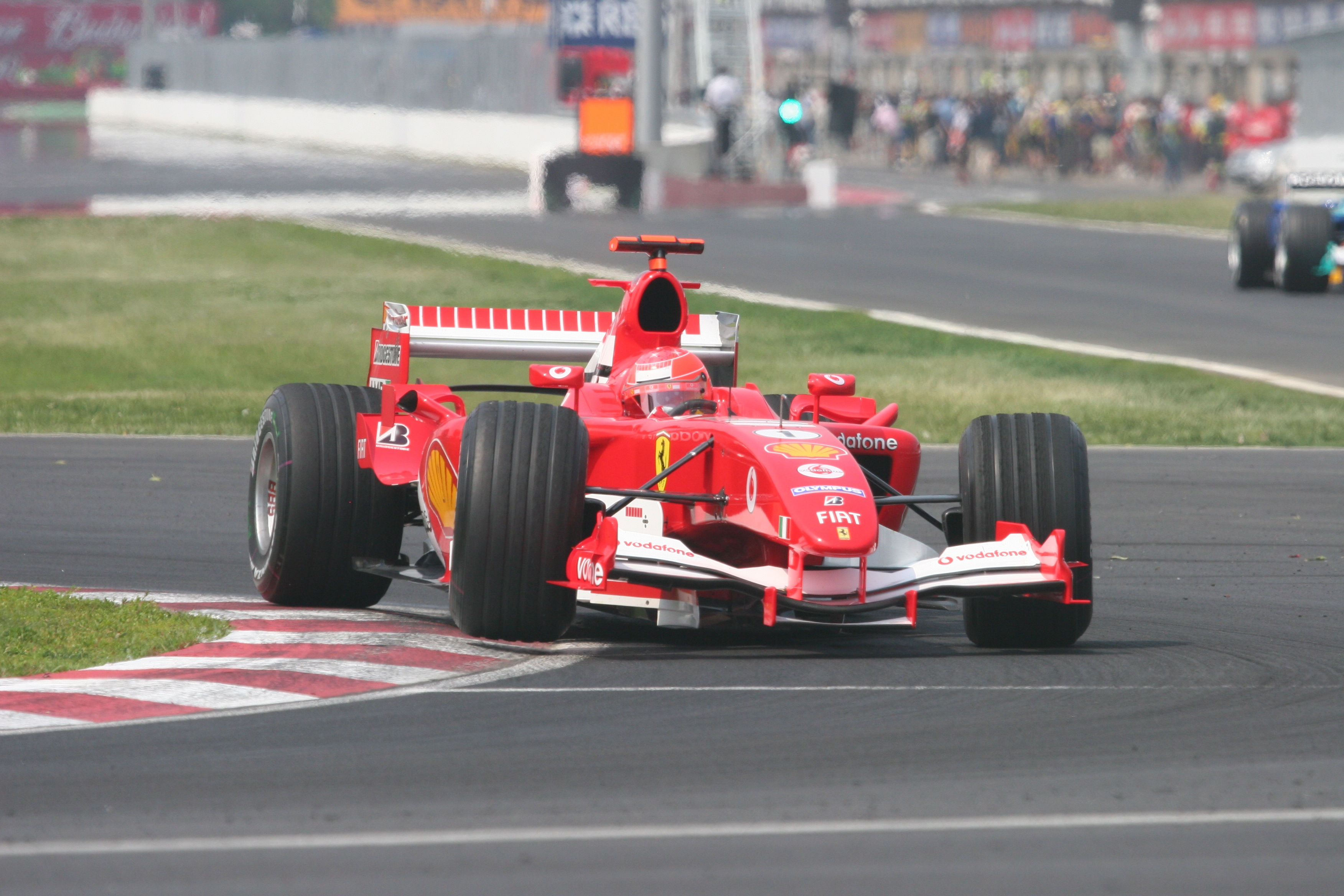 Michael Schumacher driving for Scuderia Ferrari at the 2005 Canadian Grand Prix.